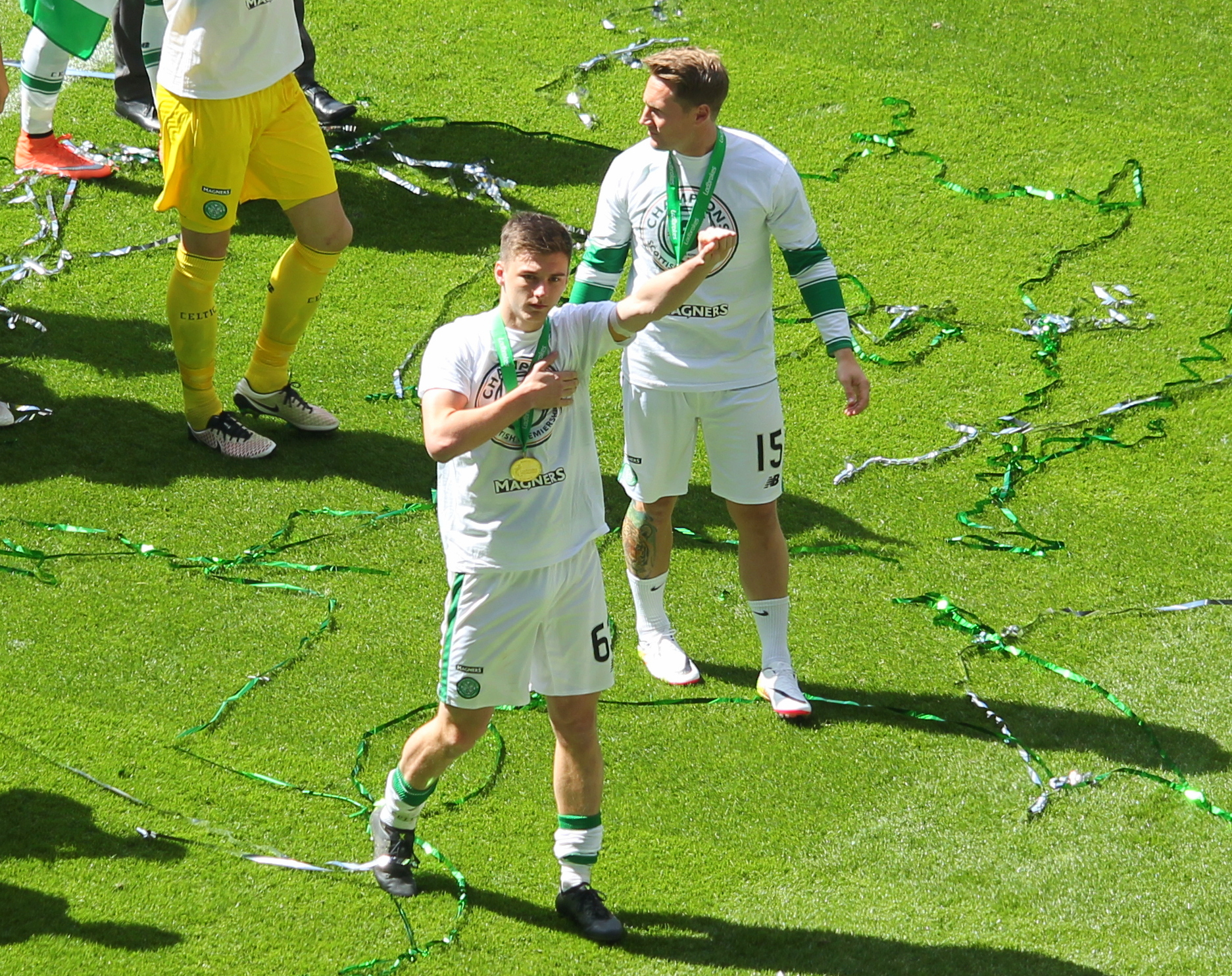 Celtic Park 15/05/16